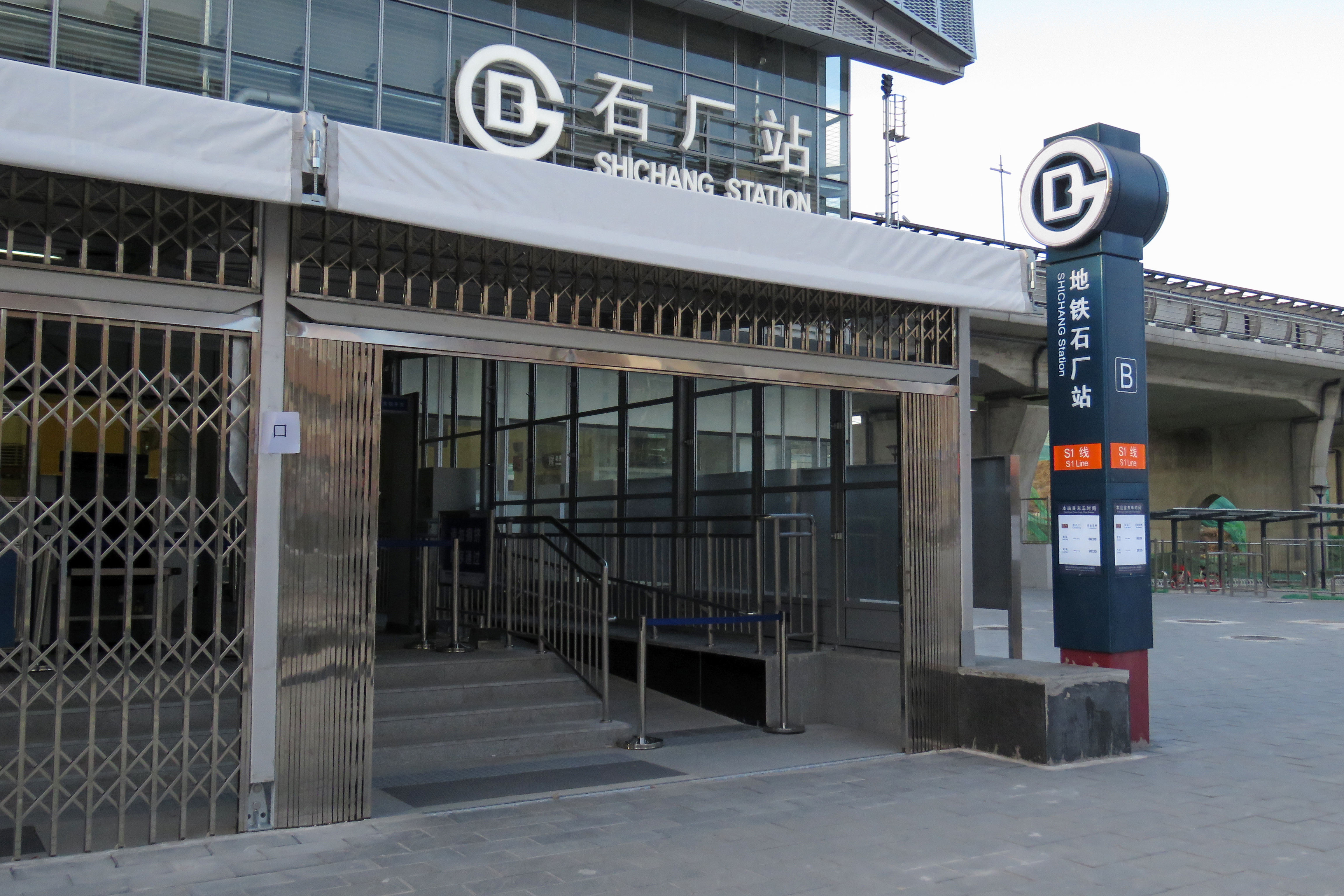 A bit late now.